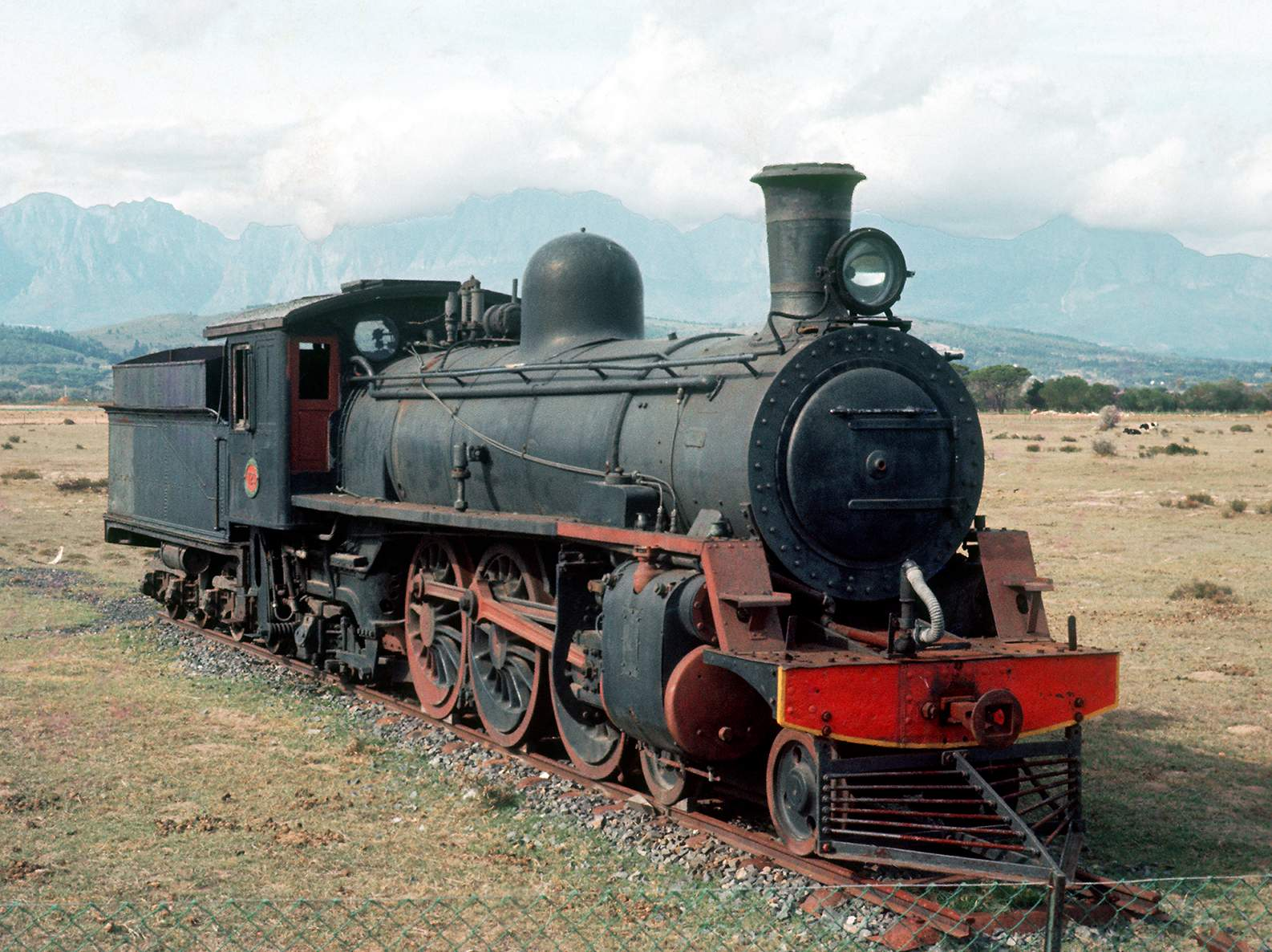 Class 5B 4-6-2 no. 723 plinthed at Strand, Western Cape